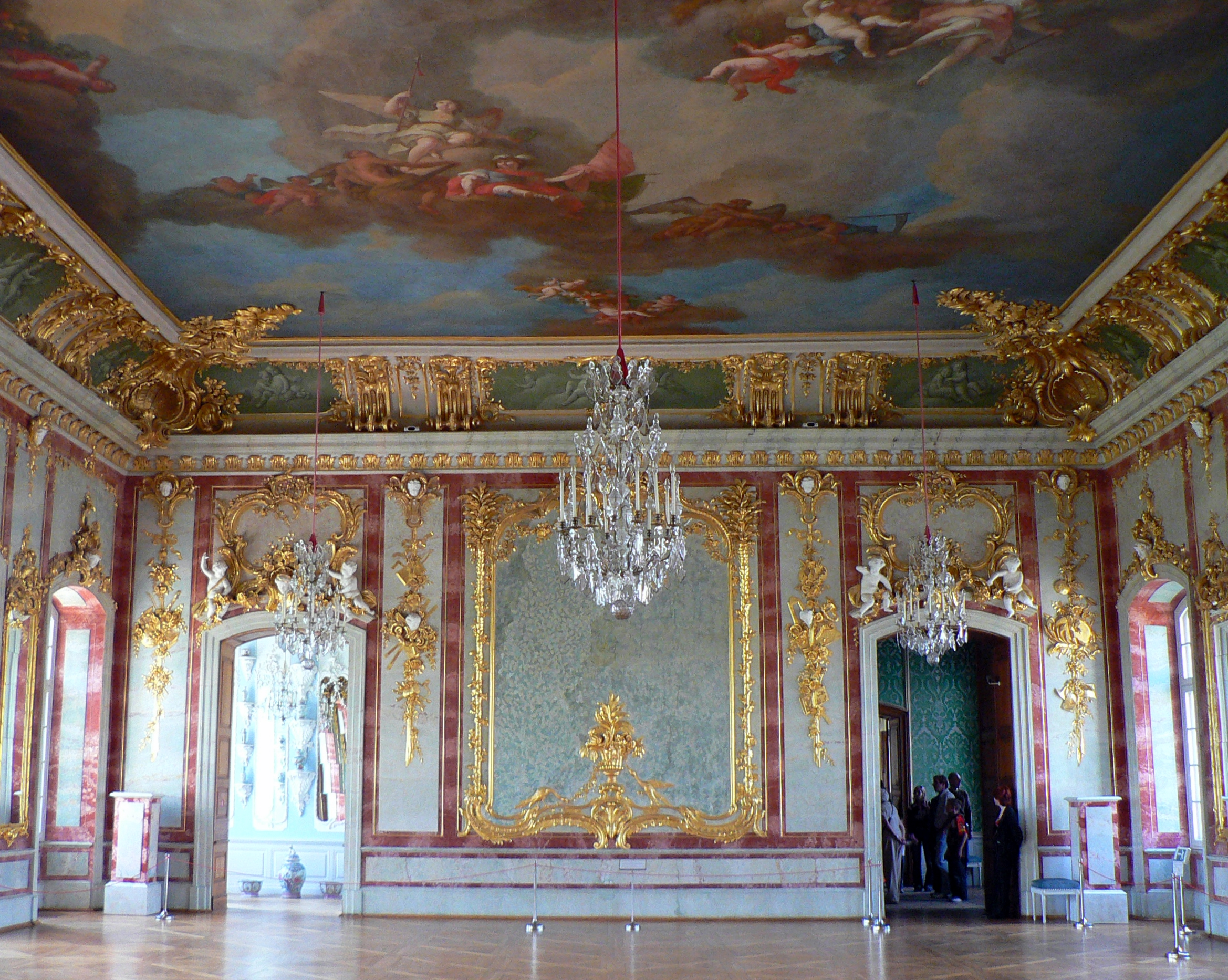 Rundāle palace, Latvia.